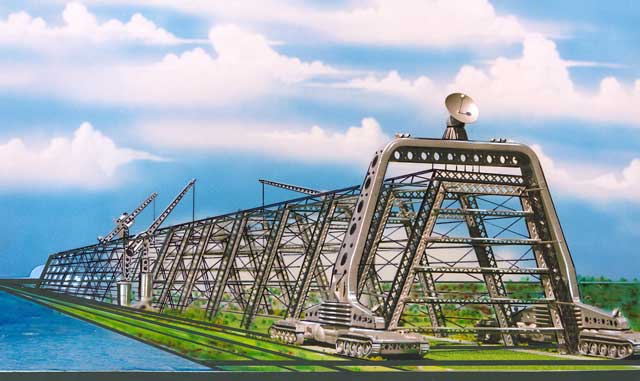 Automated Construction